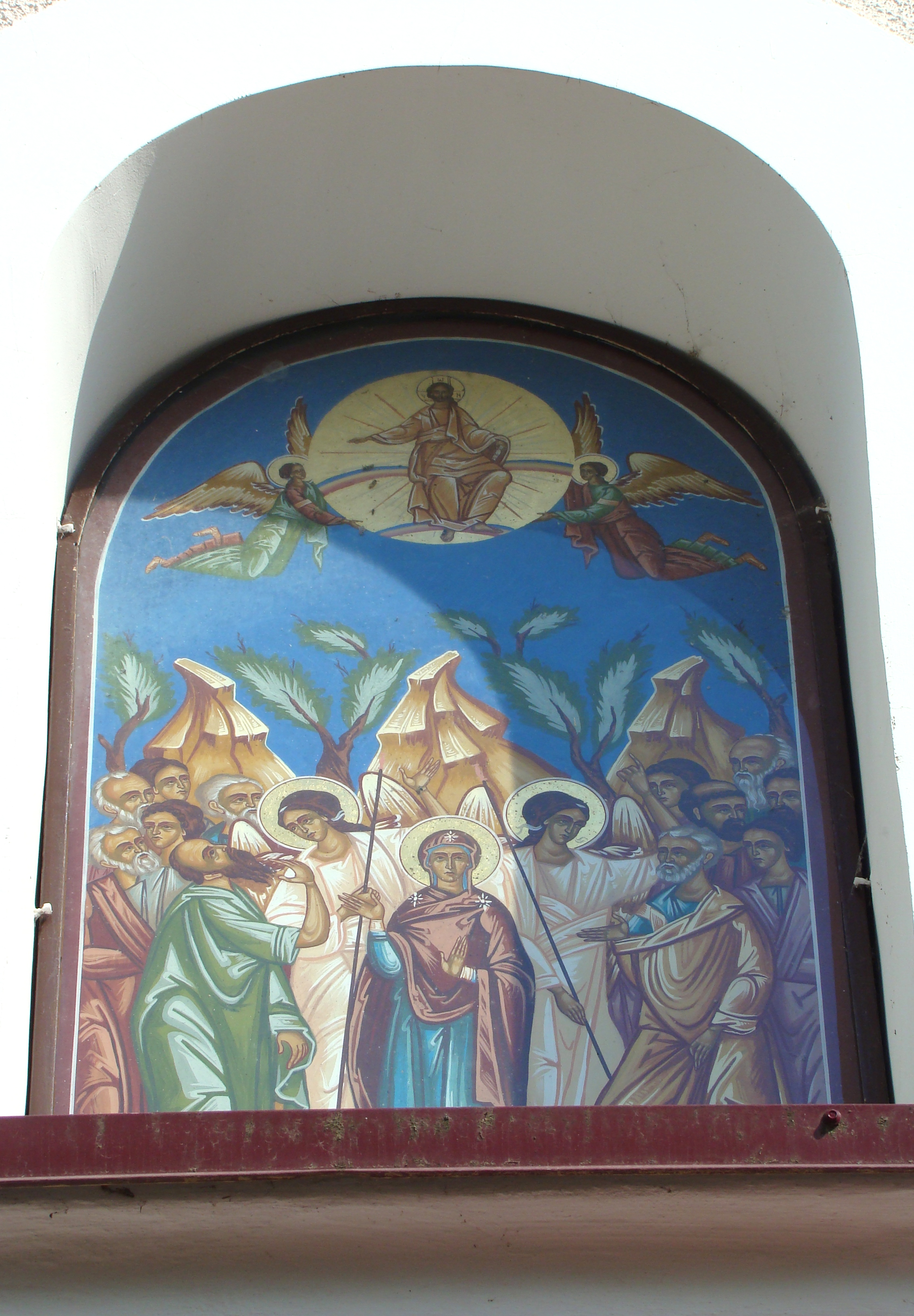 Orthodox church of The Ascension of our Lord in Râpa de Jos, Mureş county, Romania